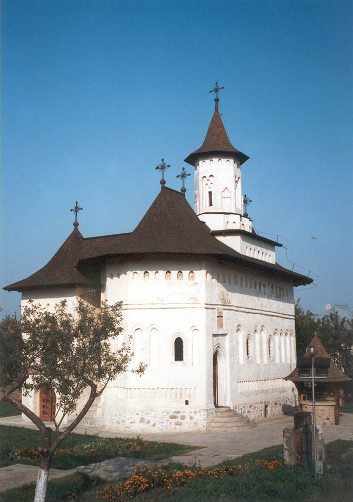 Coconilor Church in Suceava.